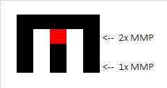 A subresolution assist feature (SRAF) is typically inserted to make a 2X minimum metal pitch (MMP) more similar optically to a 1X minimum metal pitch. However, if there is not enough space (red), such OPC is forbidden.